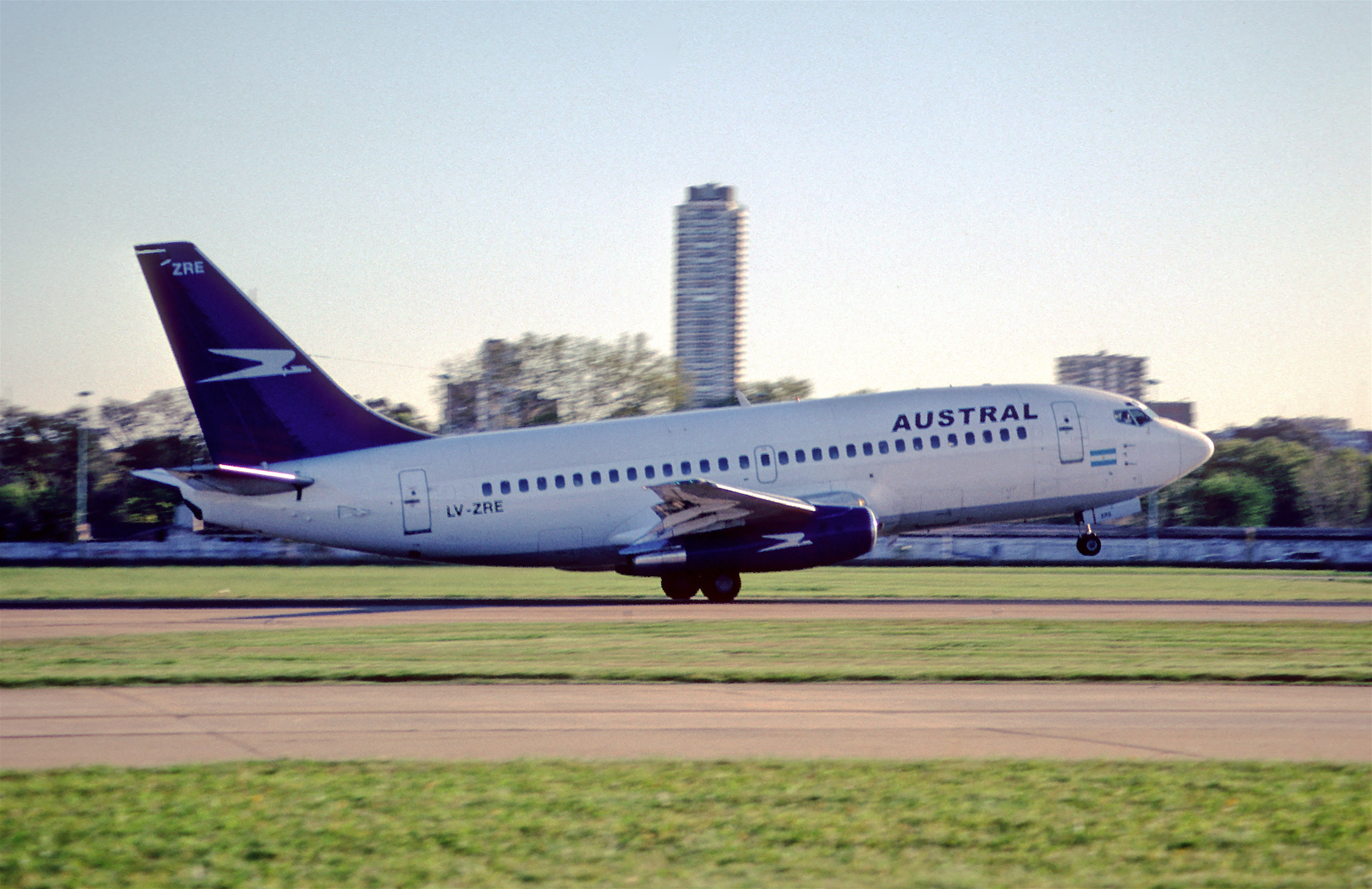 319bs - Austral Boeing 737-200; LV-ZRE@AEP;22.09.2004